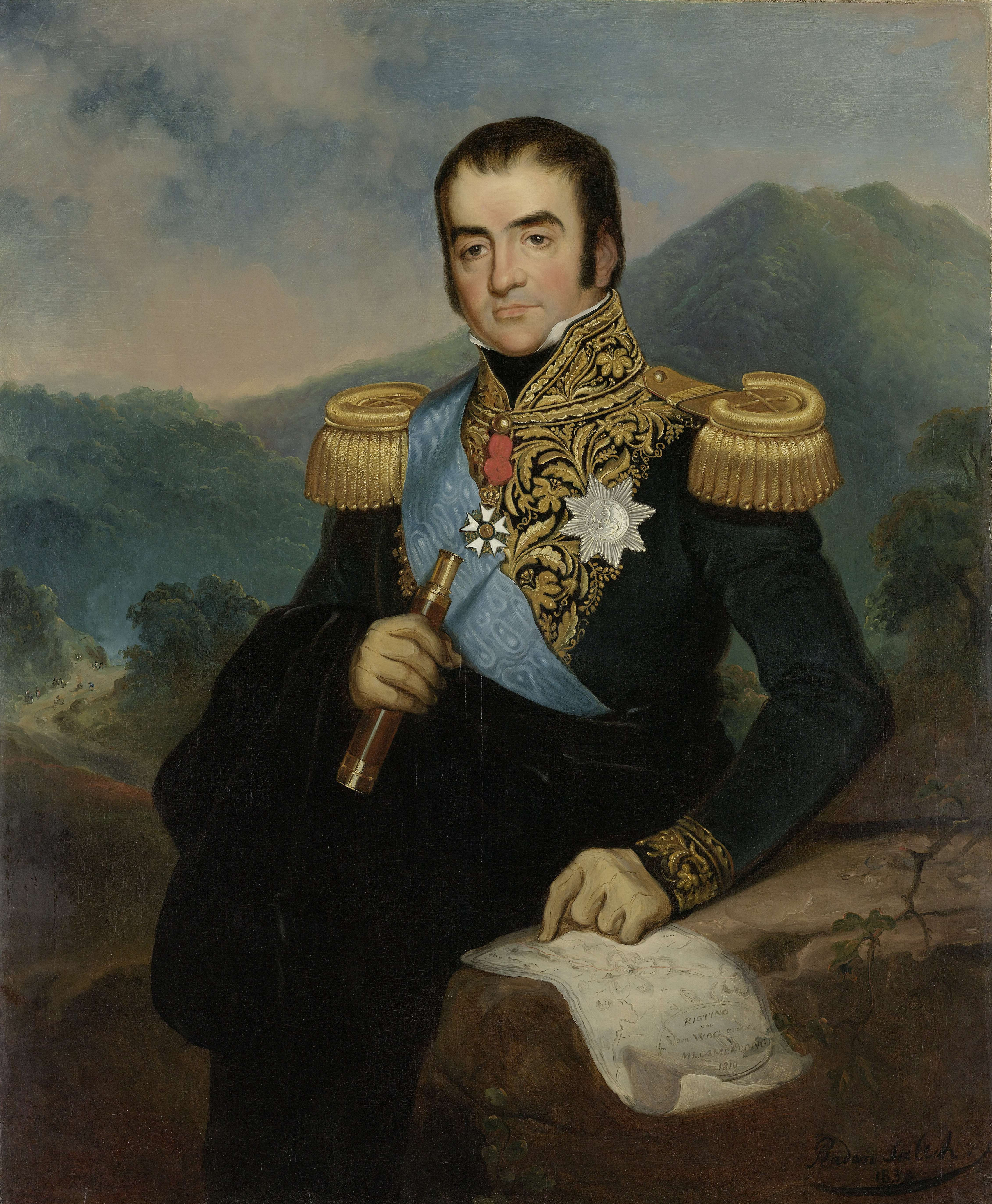 Posthumous portrait of Herman Willem Daendels, Governor-General of the Dutch East Indies from 1808 to 1810, based on a miniature dated 1816 by French artist S.J. Rochard. Part of the Governors-general series. In this picture Daendels is shown pointing a map of the De Grote Postweg (Great Post Road) with writing Rigting van Weg Megamendong 1818 (direction of the road in Megamendung), today Mega Mendung, Puncak, West Java. The background depicting part of the Great Post Road at Puncak Pass area, while on the right background stood Mount Pangrango.